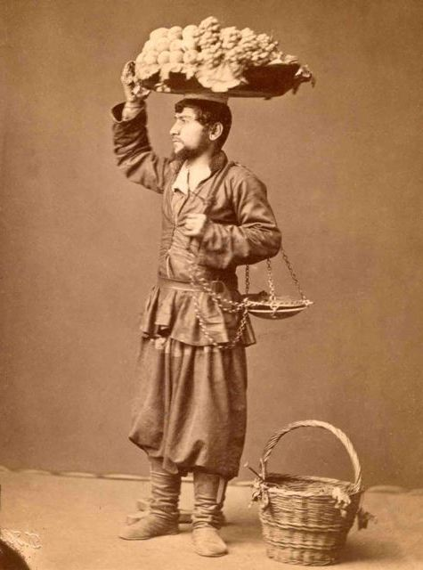 The photo of Kinto